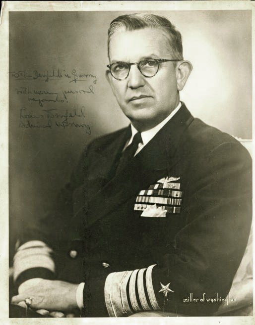 Louis Emil Denfeld (April 13, 1891, Westborough, Massachusetts – March 28, 1972, Westborough, Massachusetts), was Chief of Naval Operations of the United States Navy from 15 December 1947 to 1 November 1949. He also held several significant surface commands during World War II, and after the war commanded the U.S. Pacific Fleet.